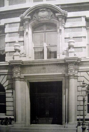 Main entrance of St. Vincent's Hospital, New York City, designed by Schickel & Ditmars (photo from 1900 American Architect and Building News)